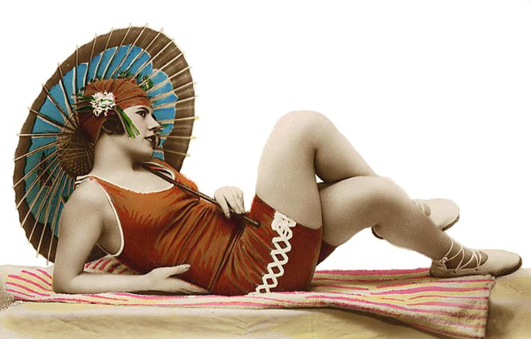 Woman's bathing suit from 1920s. Photo postcard. No copyright notice on card. This is a SOL postcard, series 2832. Here is a larger example of the posted image.